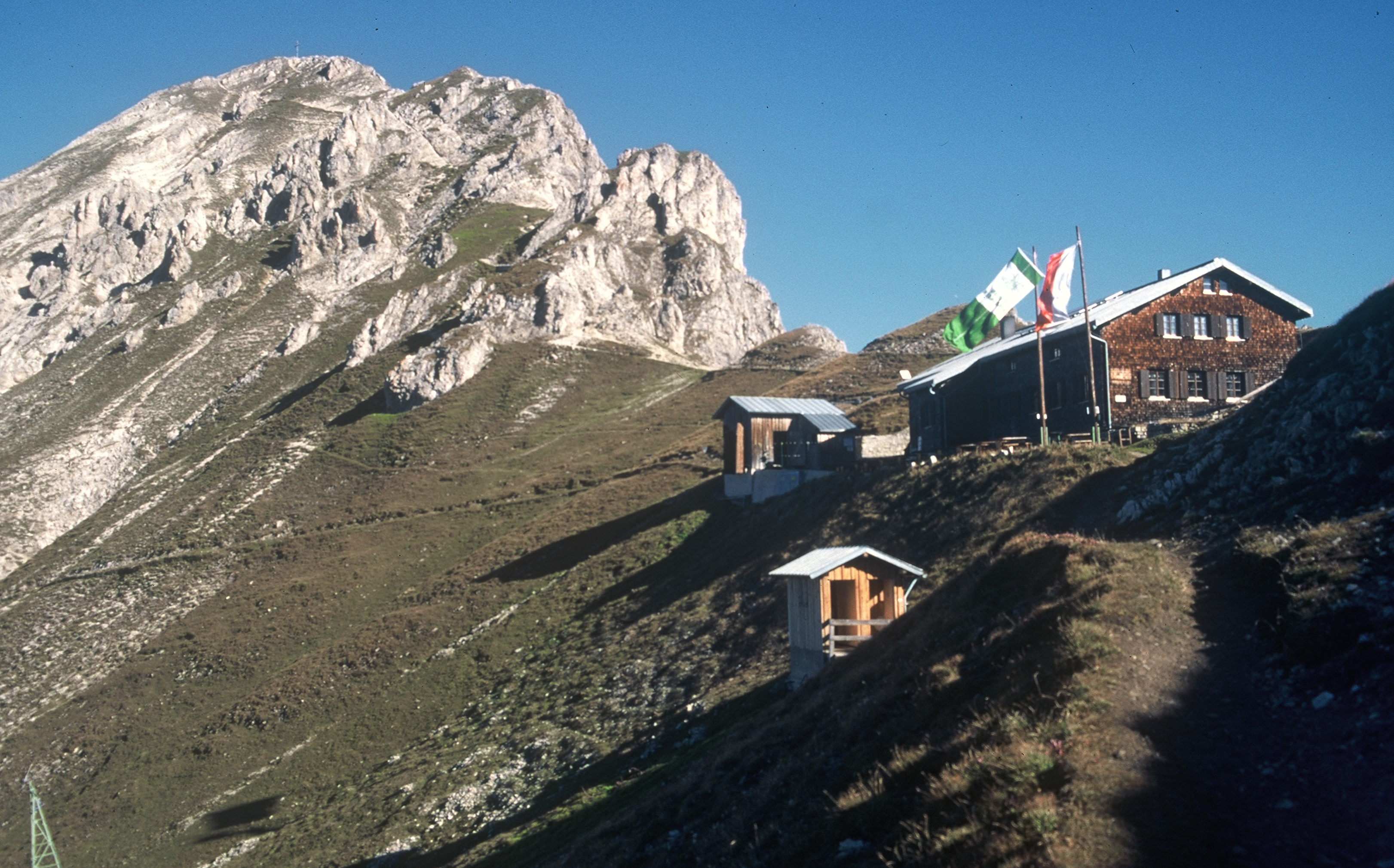 The Reither Spitze and the Nördlinger Hütte in the Karwendel